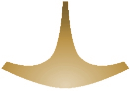 Finnish Pagan amulet, the axe or hammer of Ukko